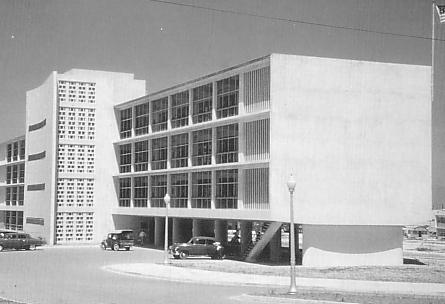 GRI(Government of the Ryukyu Islands) Building